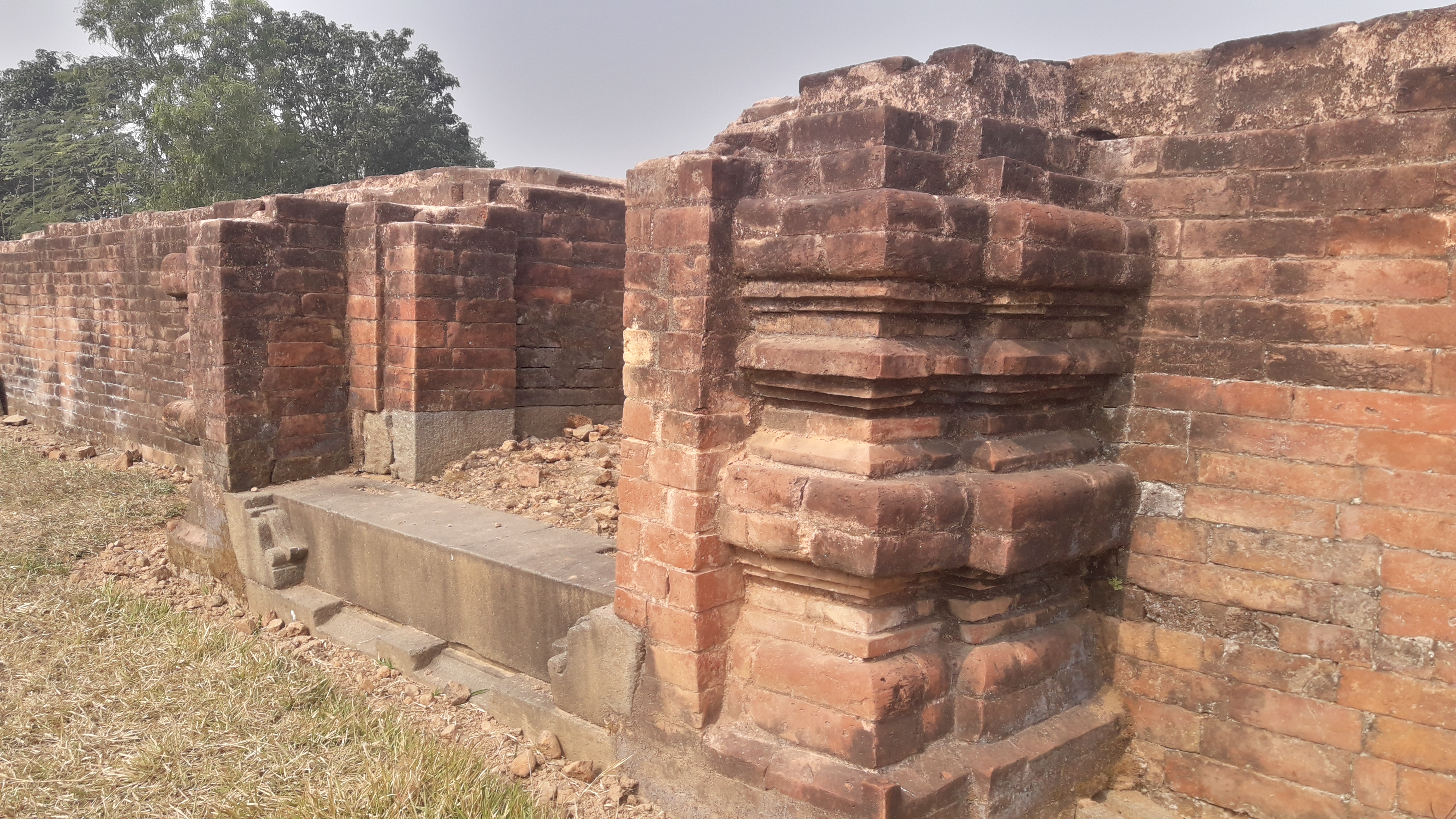 One of the cells for Buddhist for accommodation